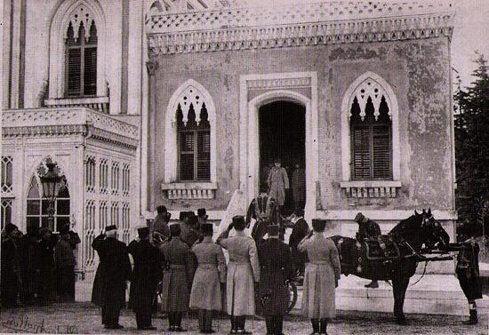 Mehmed VI leaves Yıldız Mosque.